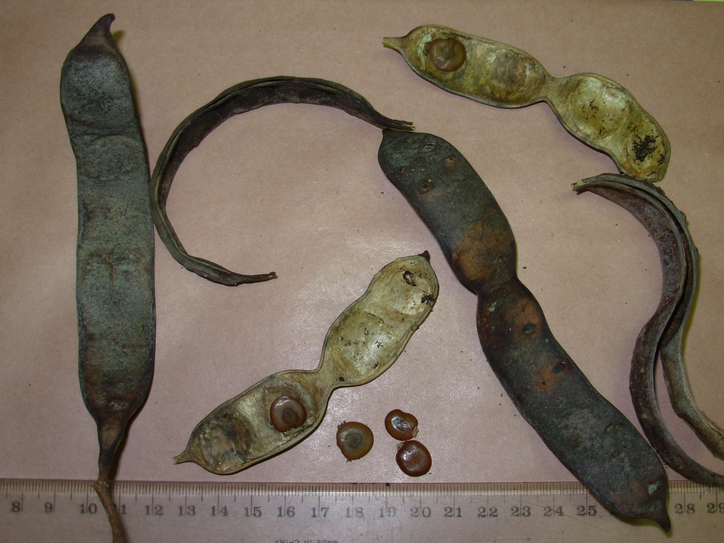 Acacia catechu pods and seeds